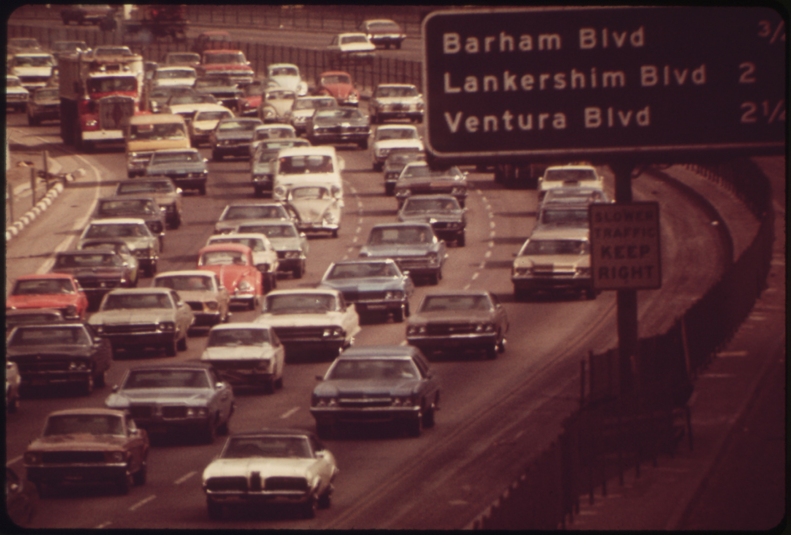 Road sign in view lists exits for Barham Blvd (¾ mile), Lankershim Blvd (2 miles), and Ventura Blvd (2¼ miles). "Ventura Beach" in the title was probably meant to be "Ventura Blvd"; there is no beach nearby. Location is the Cahuenga Pass, looking northward towards the Hollywood Split within the San Fernando Valley.